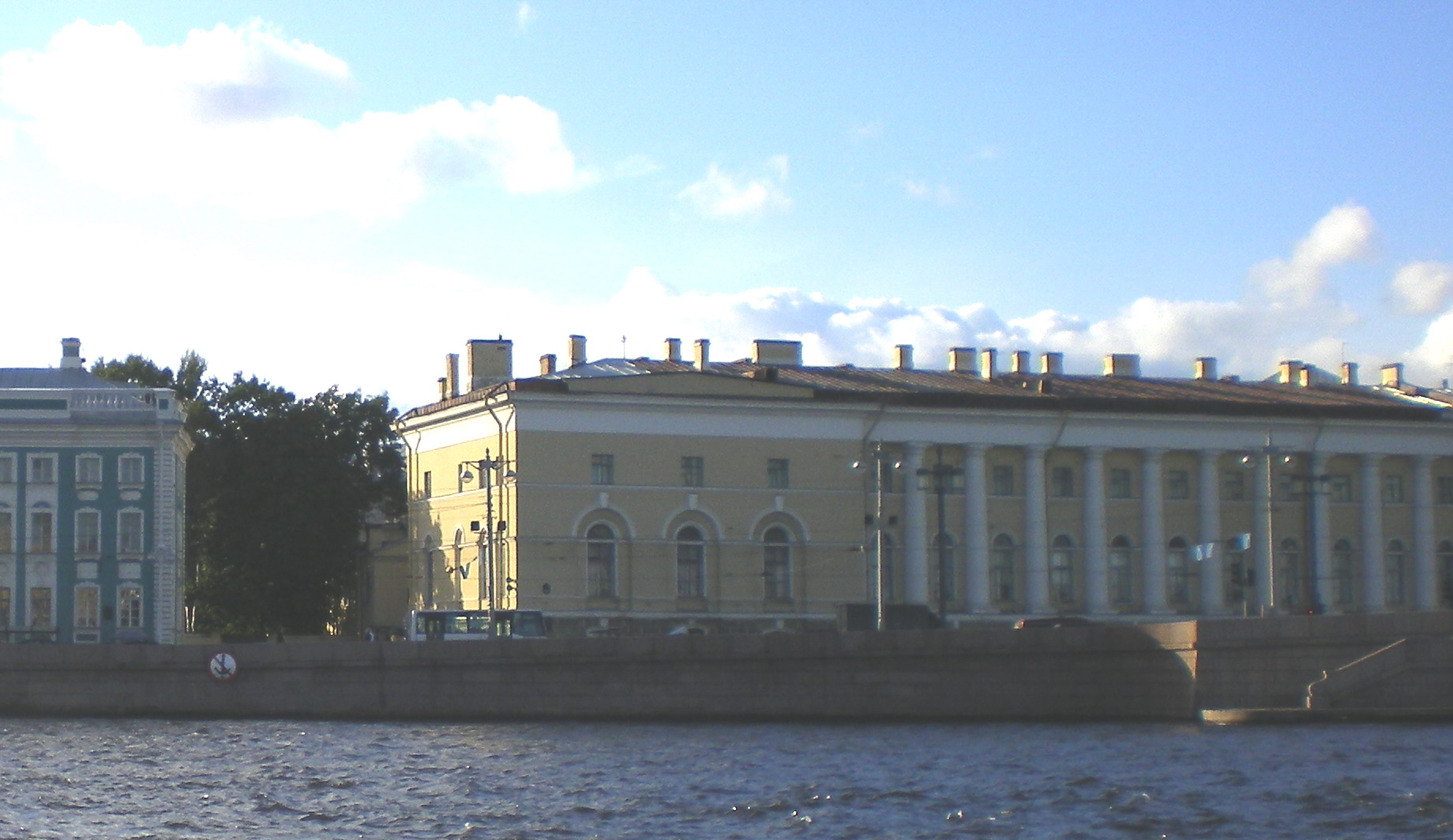 1 Universitetskaya Embankment, Zoological Museum (on the right) and the Kunstkamera (on the left), Saint Petersburg.